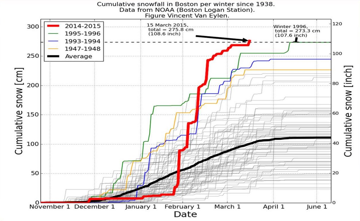 A graph of cumulative snowfall in Logan International Airport in Boston, Massachusetts since 1938.